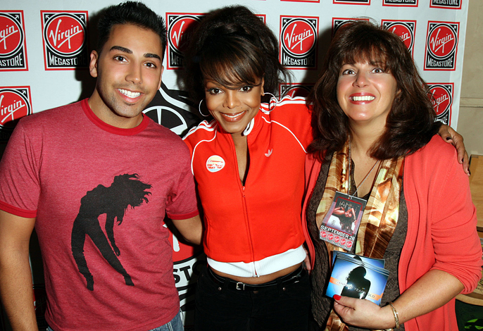 Janet Jackson with the winners of the album's "Design Me" contest at an album signing, Matthew Zeghibe and Teresa Scionti.